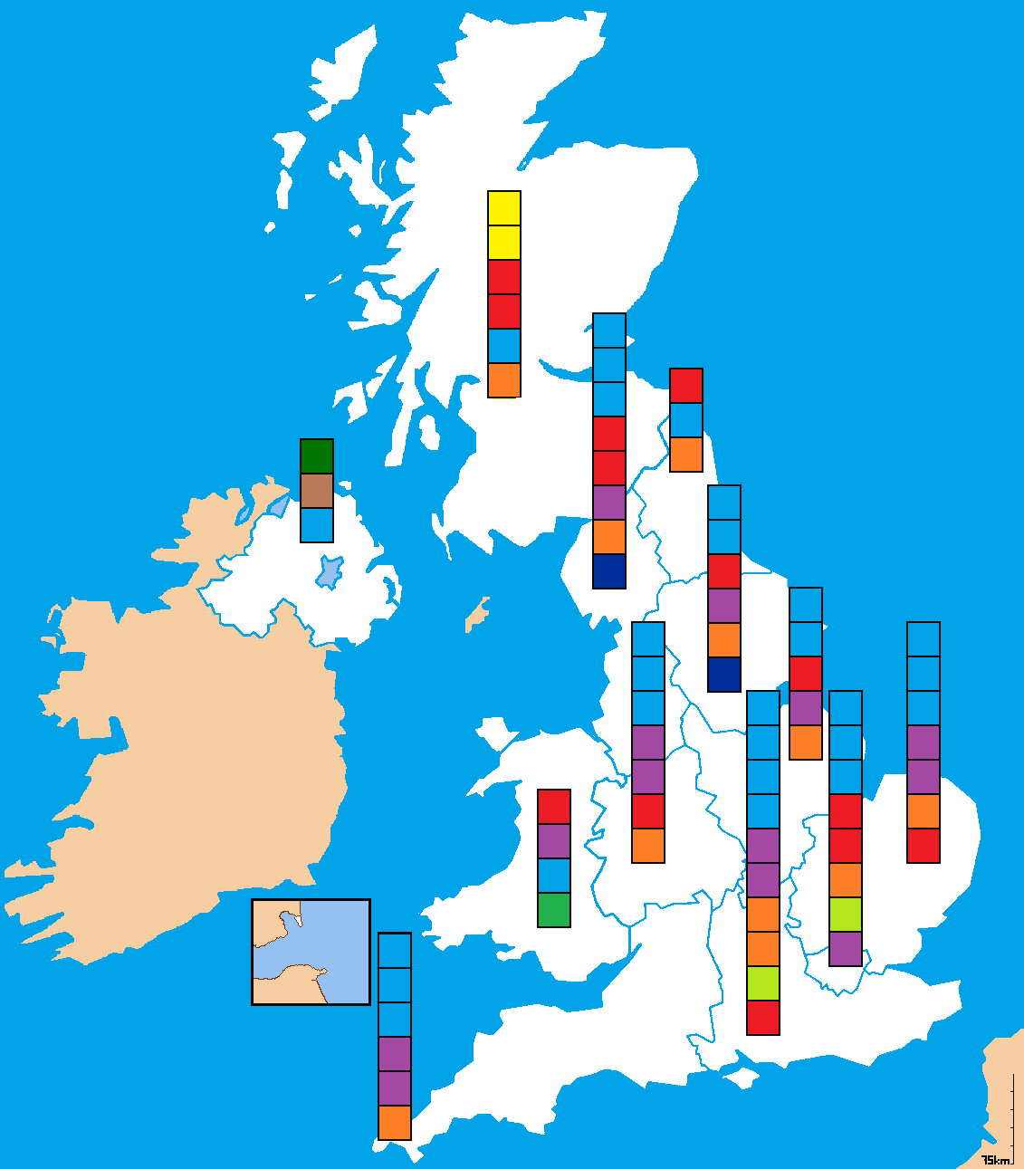 A map of British constituencies used for the 2009 European Parliament Election. Colours indicate winning party.